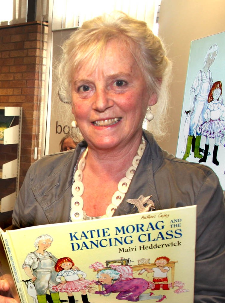 Mairi Hedderwick, best selling author and illustrator of the enormously popular Katie Morag books, about to talk to children at Wishaw library in October 2007.